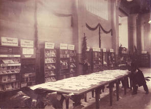 Interior de la Casa de América de Barcelona